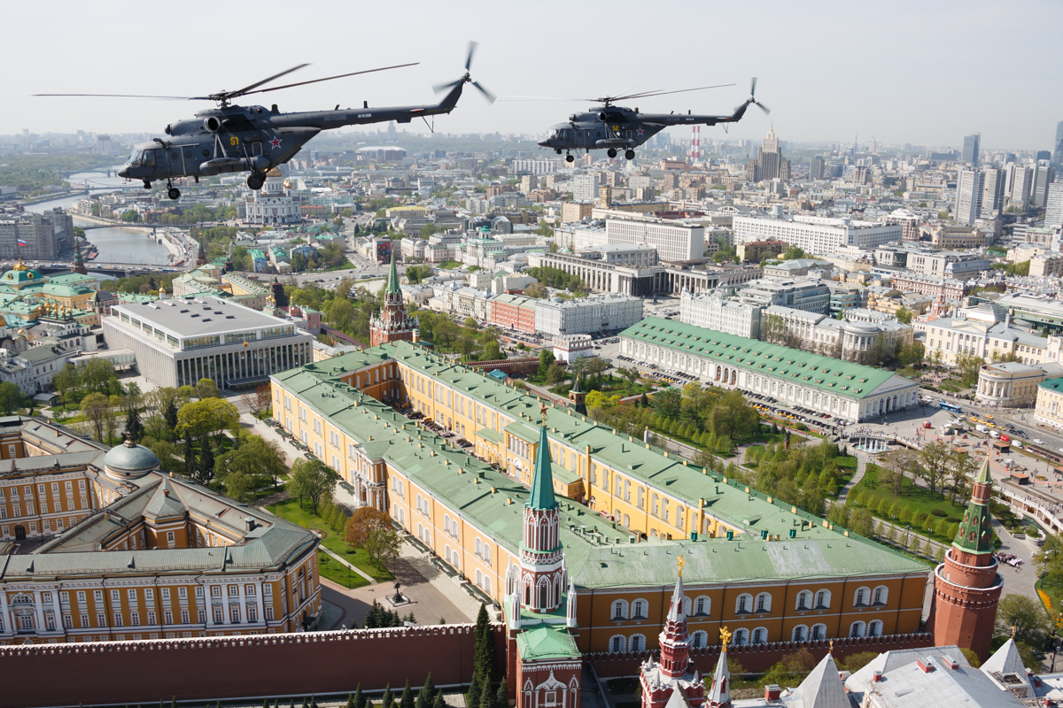 Mil Mi-8AMTSh and Kremlin Arsenal.